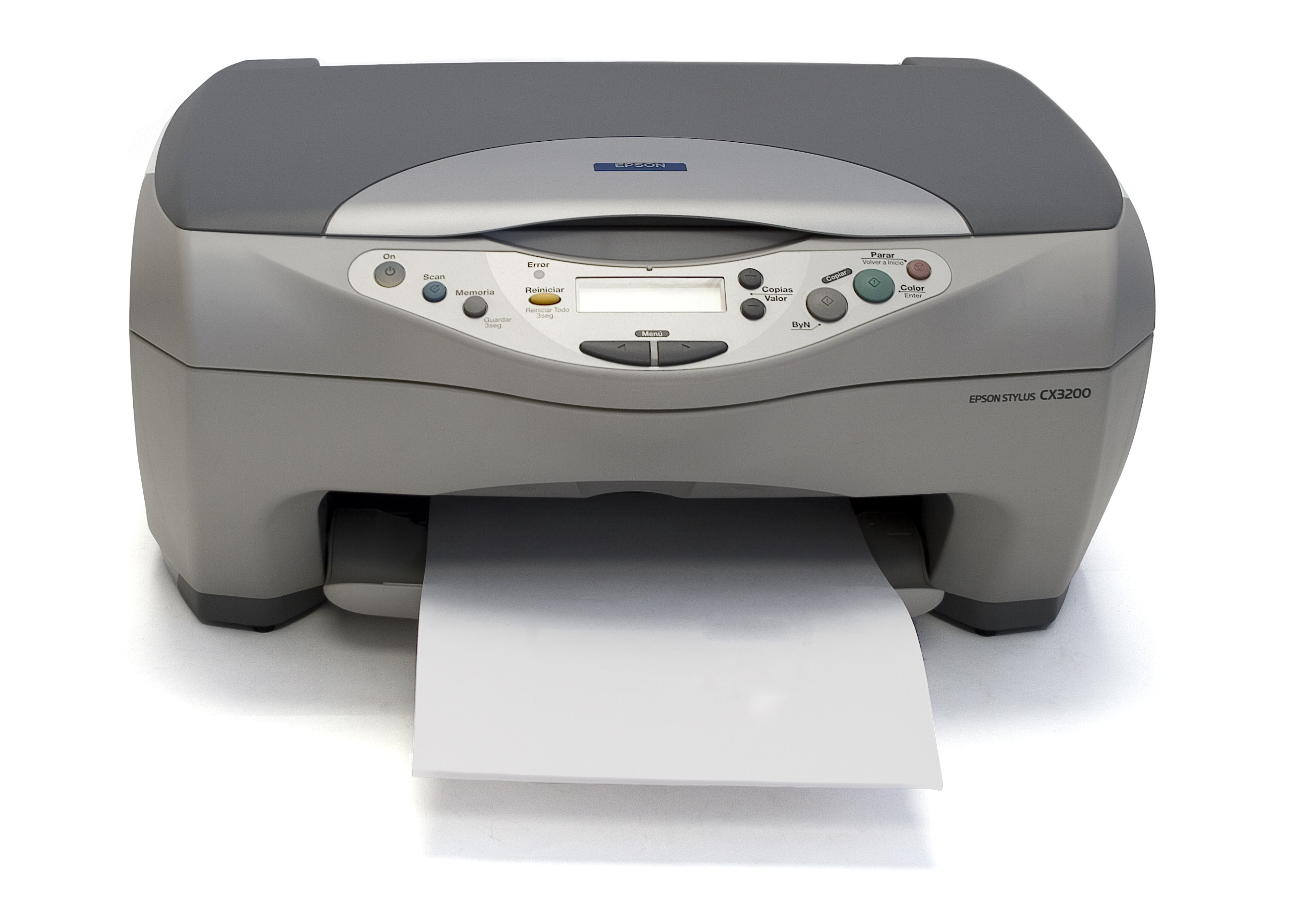 An Epson CX3200 multi-function printer/scanner.